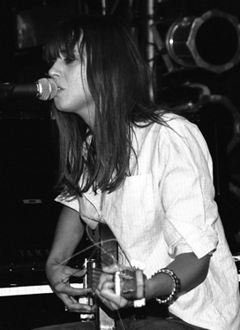 Photo of Cat Power performing at All Tomorrow's Parties festival in England, Week 2, 2004.